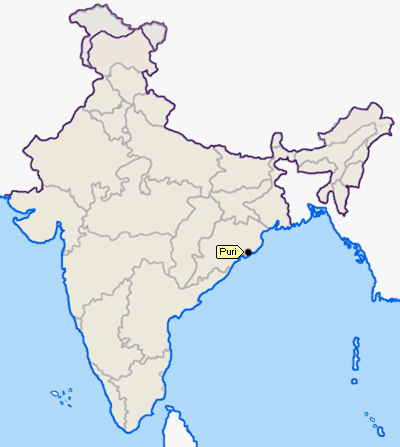 Location of Puri, India